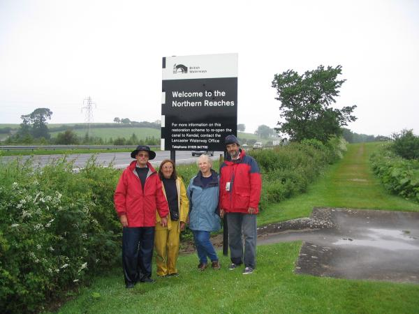 Lancaster Canal, England